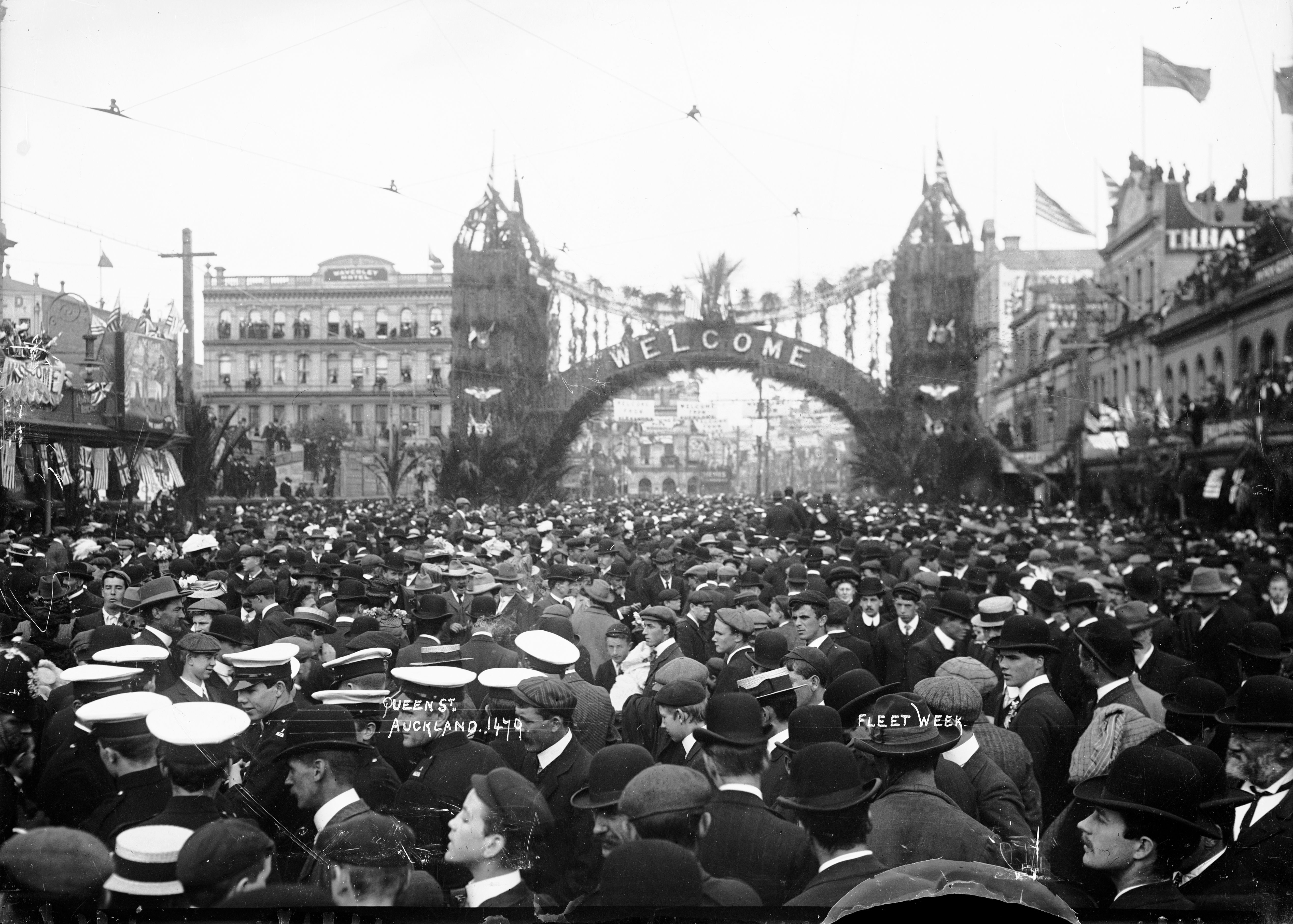 Fleet Week celebrations for the visiting 'Great White Fleet' of the US Navy in 1908 in Auckland City, New Zealand. Looking east towards the Waverly Hotel. Extended information on origin webpage reads: Crowd in Queen Street, Auckland, during celebrations for Fleet Week Aug 1908 / Reference number: 1/2-001234-G 1 b&w original negative(s). Dry plate glass negative 4.5 x 6.5 inches. Horizontal image / Part of Price, William Archer, d 1948 :Collection of post card negatives (PAColl-3057) Photographic Archive / Scope and contents: Crowd near the Welcome Arch in Lower Queen Street, Auckland, during the celebrations for Fleet Week. The Waverley Hotel can be seen in the background. Photograph taken in August 1908 by William Archer Price.